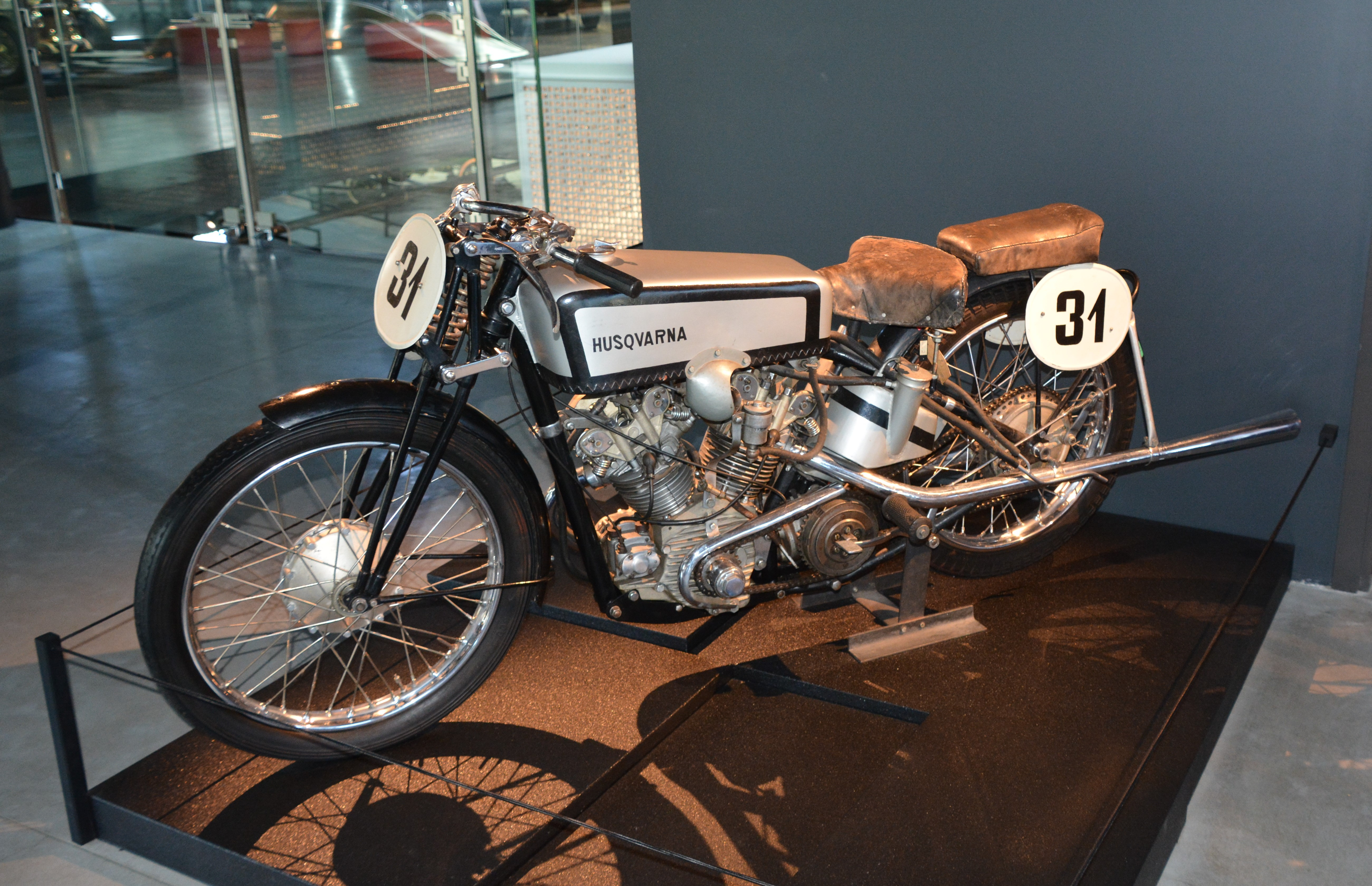 Husqvarna 500 racing motorcycle from 1935. 500 cc V2, 44 hp, 158 kg, max speed 162 km/h Riga Motor Museum